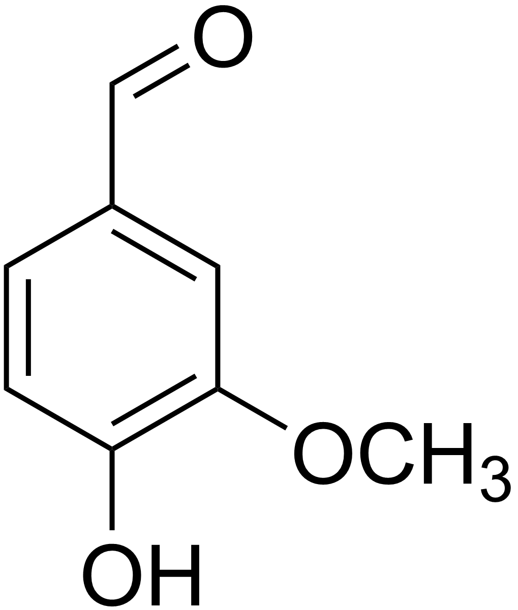 Chemical structure of vanillin created with ChemDraw